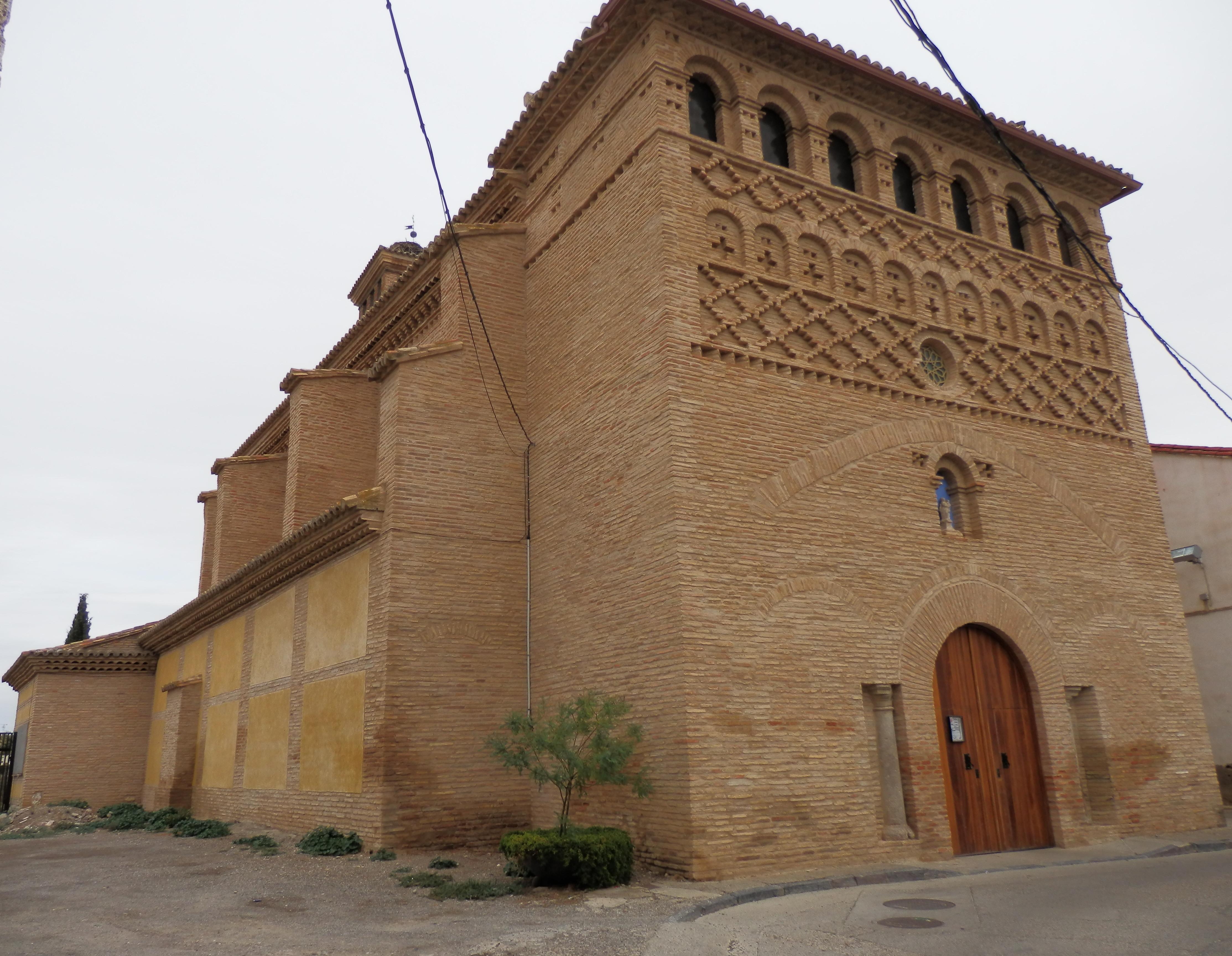 Church in San Mateo de Gállego, Zaragoza, Spain.